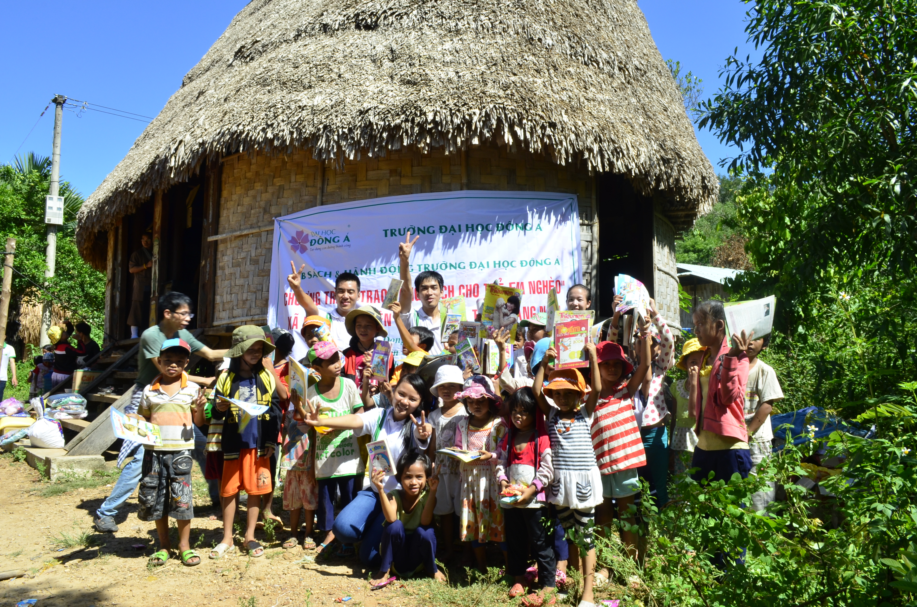 Giving books to poor and studious children in Kà Dăng (Quảng Nam Province) - one of many community-based activities by Đông Á University students